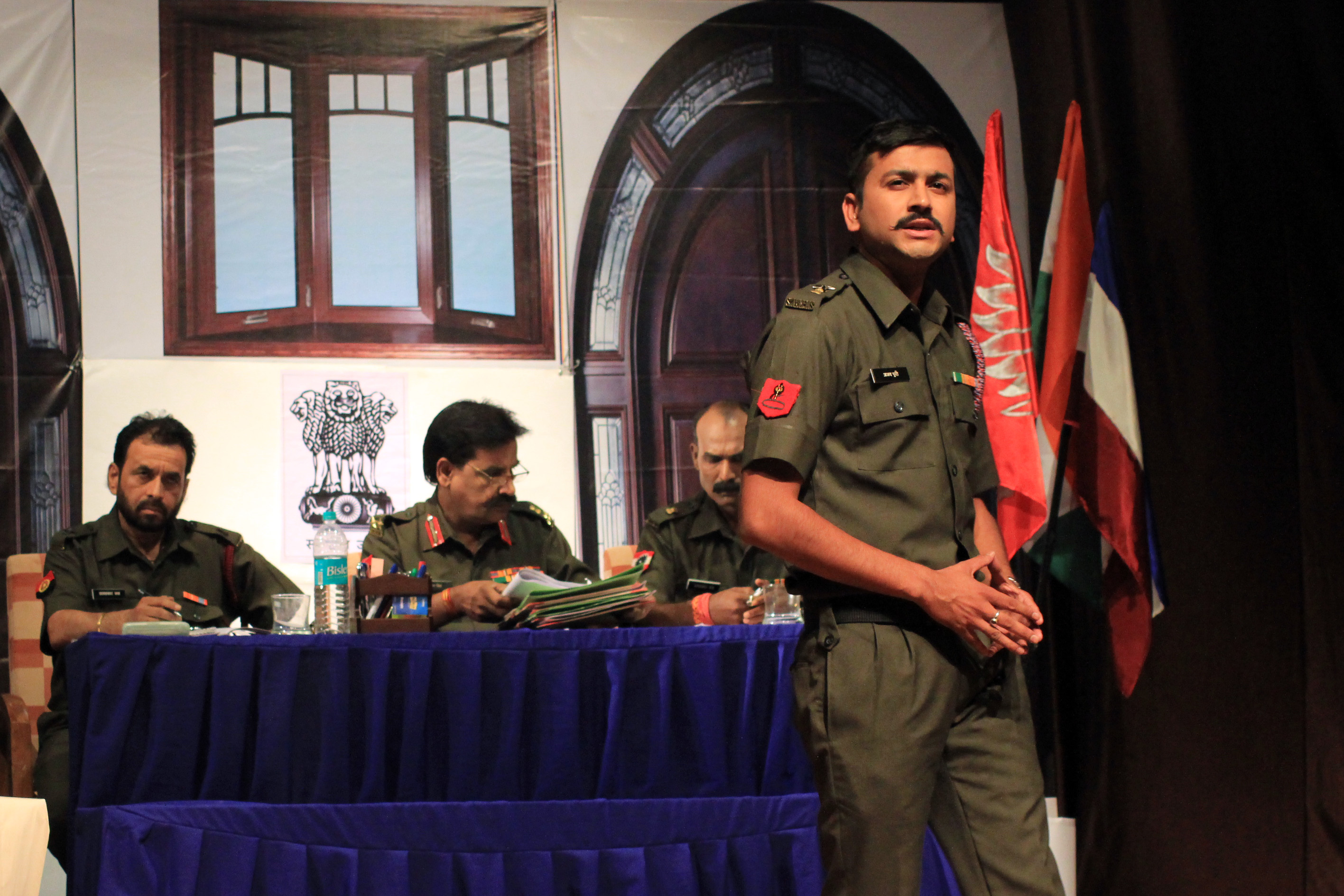 Court Martial Play at Ravindra Bhavan Bhopal ,written by Swadesh Deepak